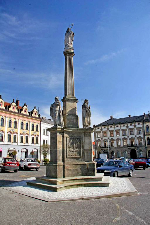 Marian plague column in the square in Hořice, Czech Republic